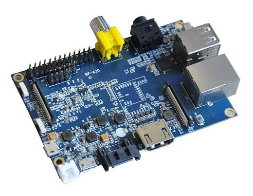 Banana-Pi